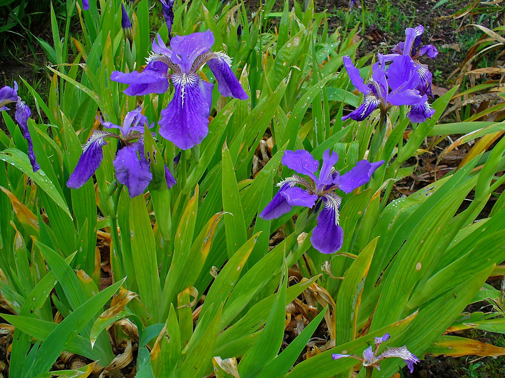 Iris tectorum, Iridaceae, Wall-Iris, habitus; Botanical Garden KIT, Karlsruhe, Germany.